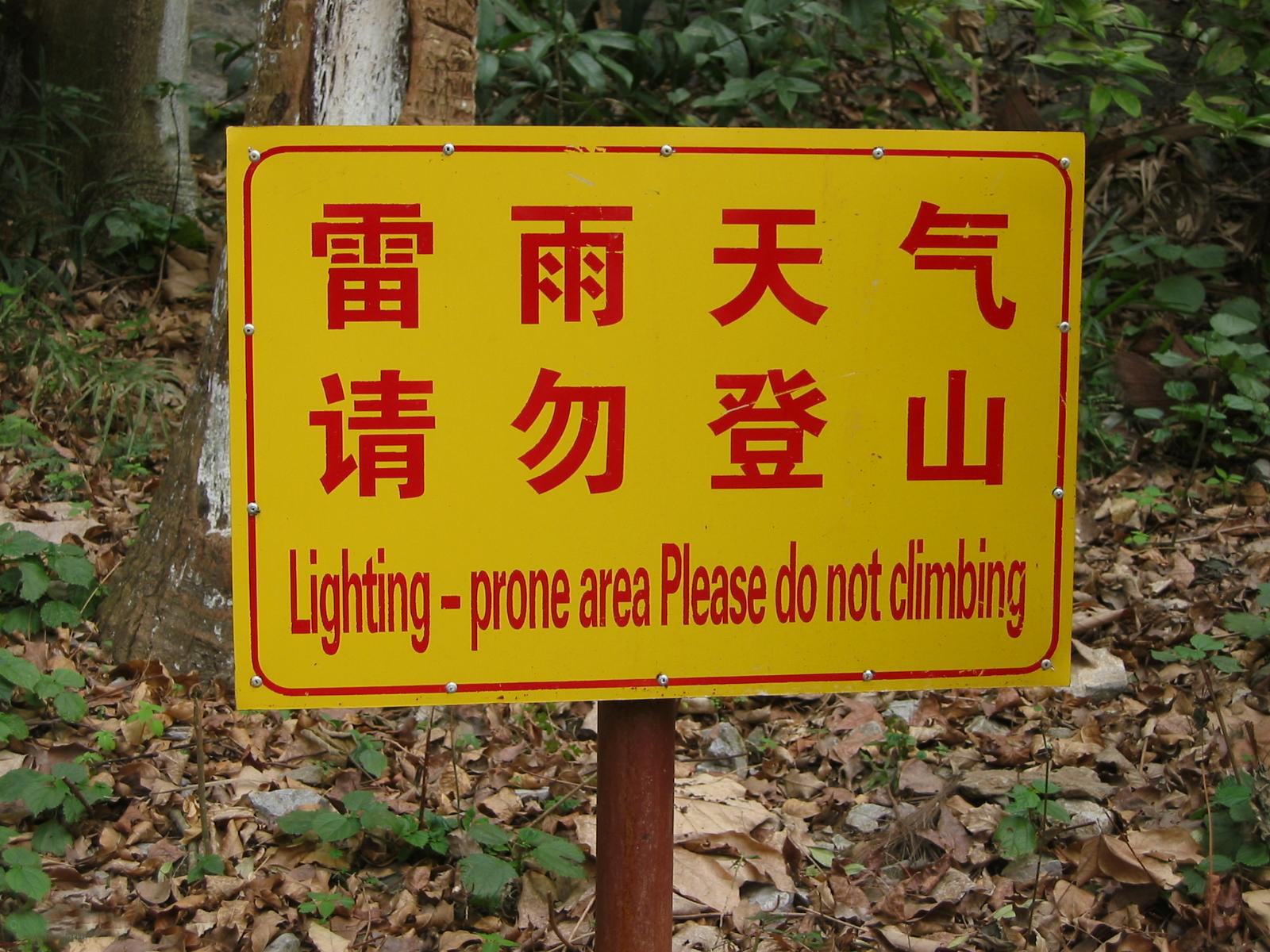 Warning sign in Chinese and Chinglish, found in a park in Guilin, Guangxi, China.